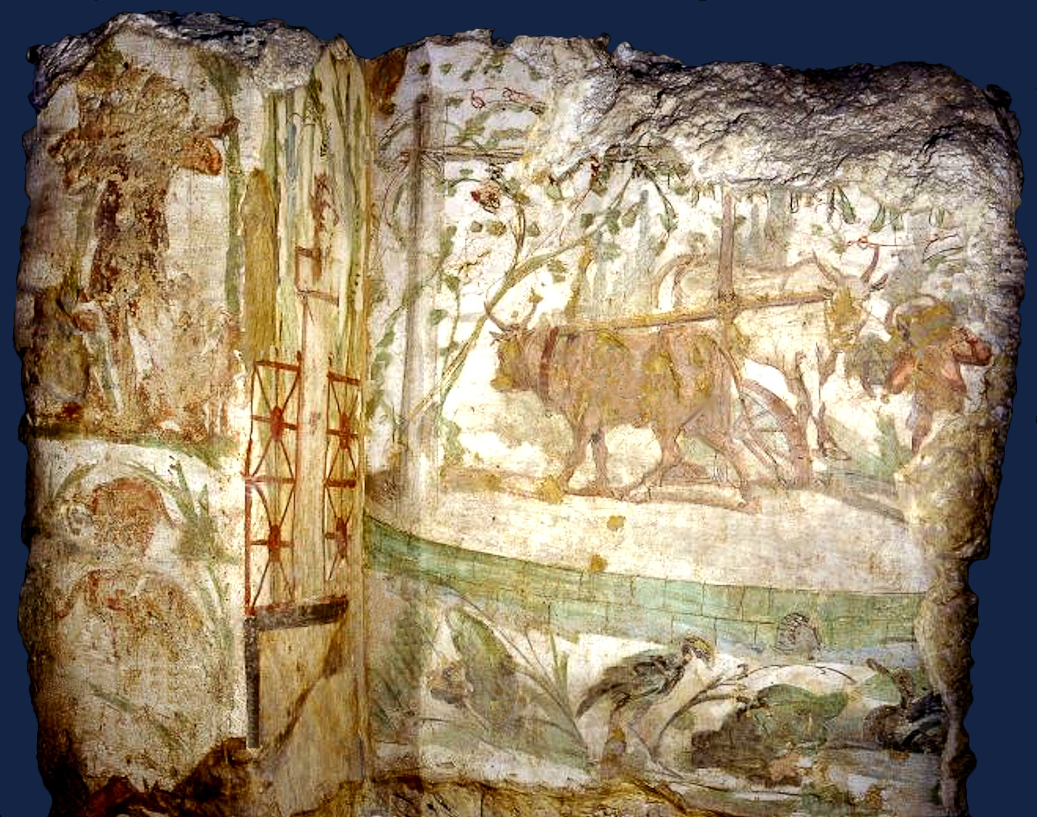 Painting on the walls of Wardian tomb: Water Wheel Driven by Two Oxen.